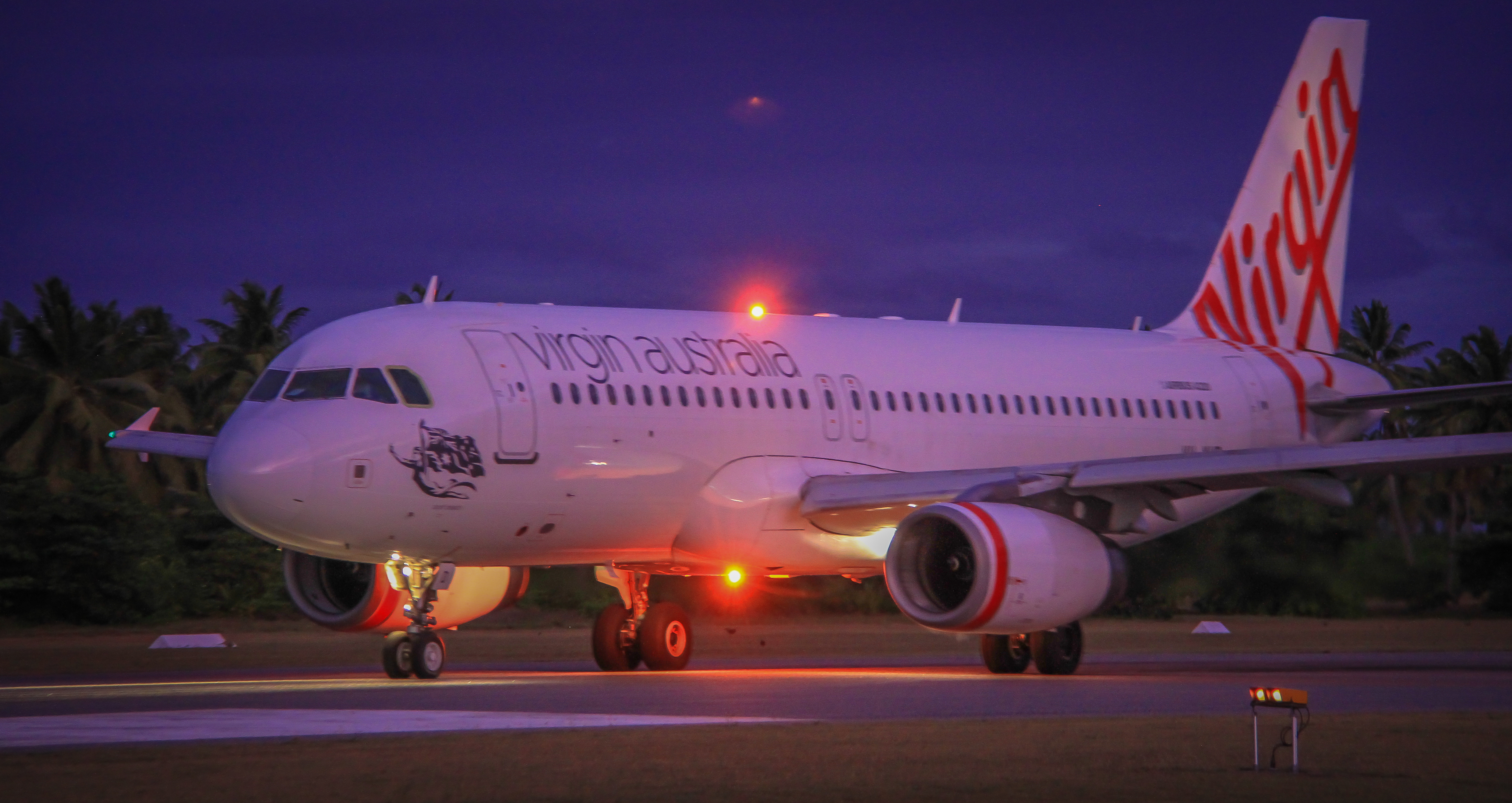 VARA Airbus A320 taxiing at Cocos (Keeling) Islands Airport